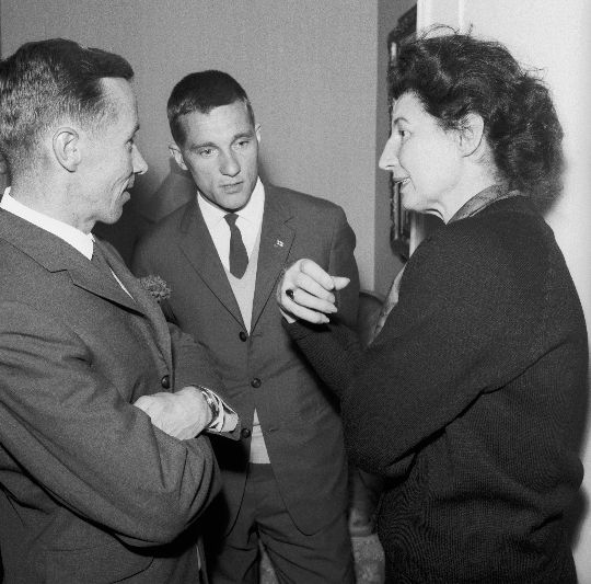 Photograph of the Finnish athletes Eino Valle (1932–1990) and Paavo Pystynen (1932–), with the Finnish politician Kaarina Virolainen (1916–2005). The athletes have just returned from the Tokyo Olympic Games.